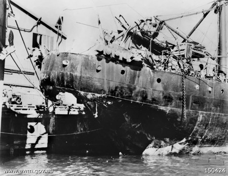 Sourced from: Copyright: The AWM record for this photo states that the copyright status is 'clear'. The photo was taken in 1942. AWM Caption: Sydney, NSW. July 1942. Torpedo damage to the Australian merchant vessel SS Allara. The ship was proceeding from Cairns to Sydney when struck under the port quarter by a torpedo from a Japanese submarine. The stern gun was blown overboard, the steering gear wrecked, four men were killed and six injured. Allara was towed to Newcastle and then to Sydney for repair.